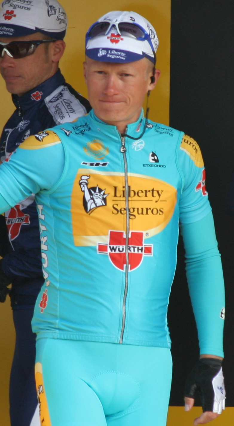 cropped version of Image:Alexandre Vinokourov LBL2006.jpg